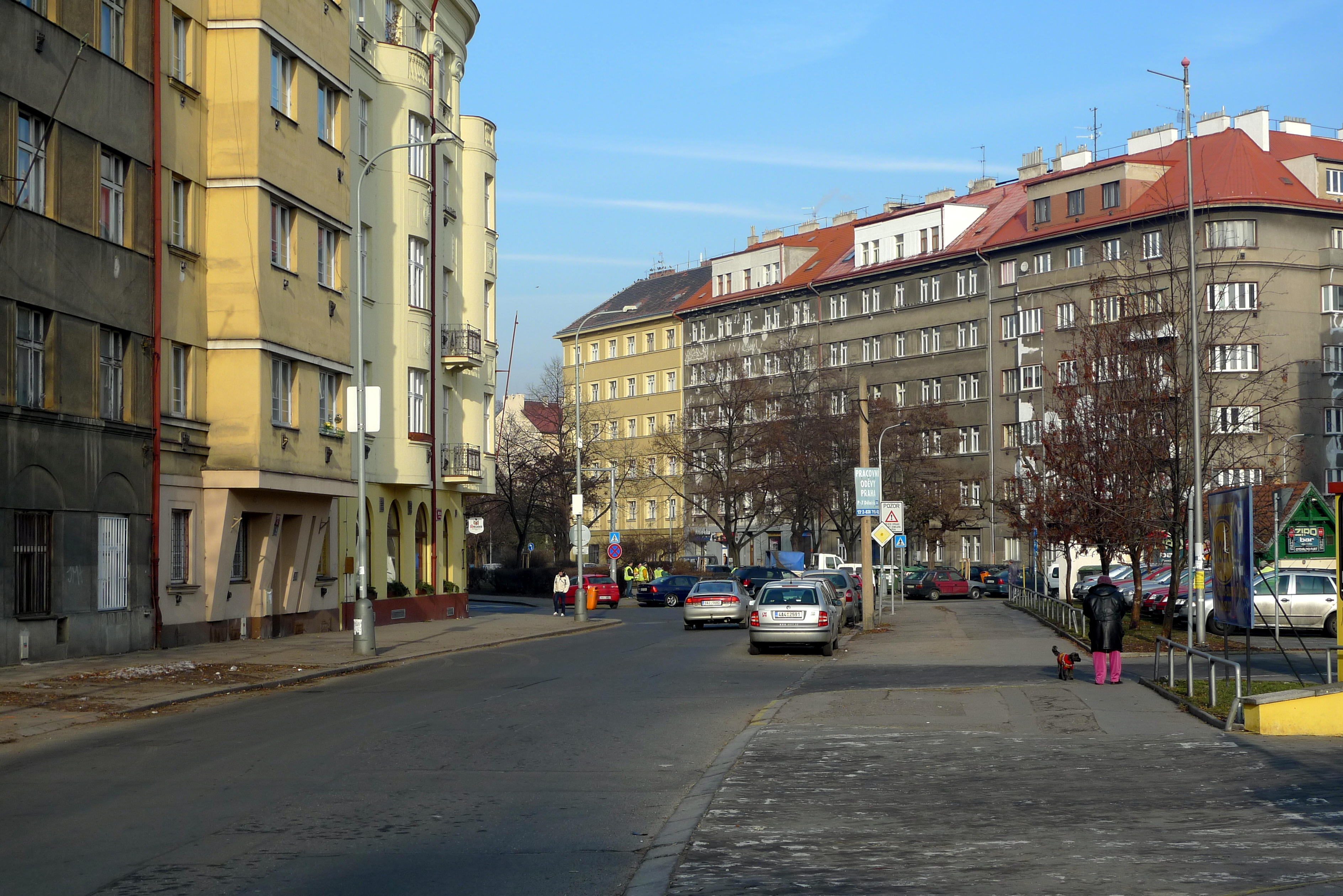 Lower Libeň, part of Prague 8, Czech Republic Česky: Křížení ulice Kotlaska a náměstí dr. Holého, Dolní Libeň v Praze 8